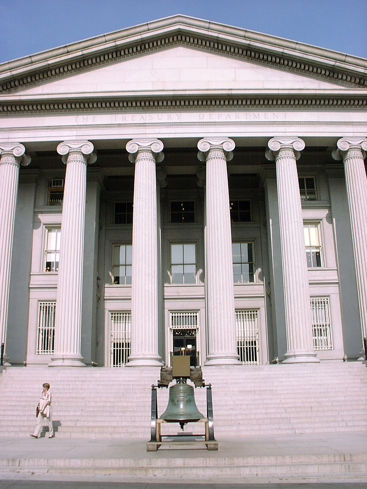 U.S. Department of Treasury headquarters in Washington, D.C.